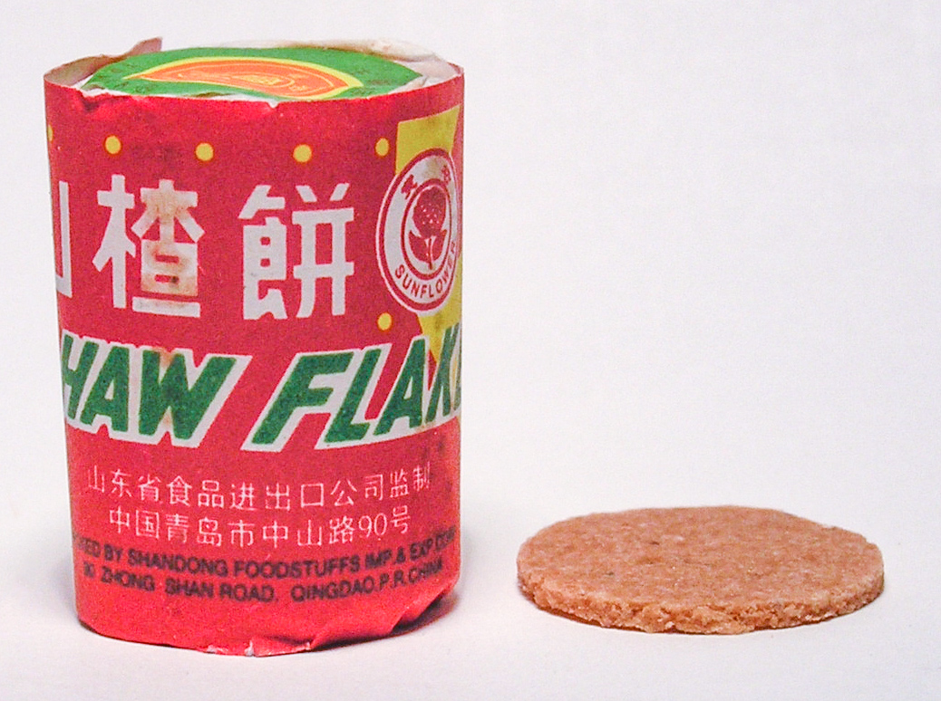 A picture of a haw flake and a roll of haw flakes.